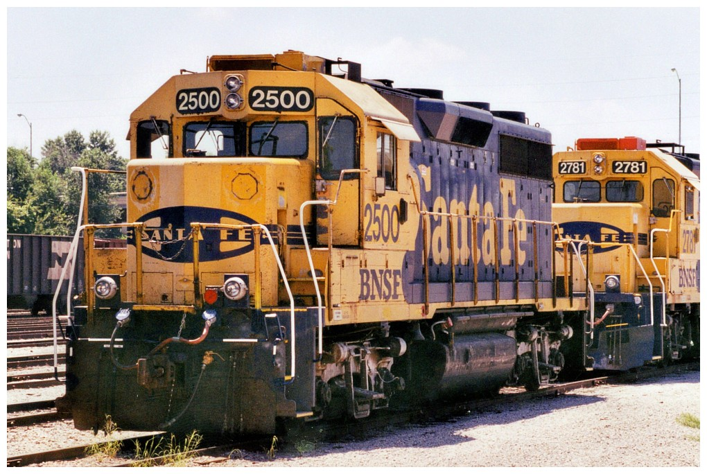 Burlington Northern Santa Fe 2500 EMD GP35